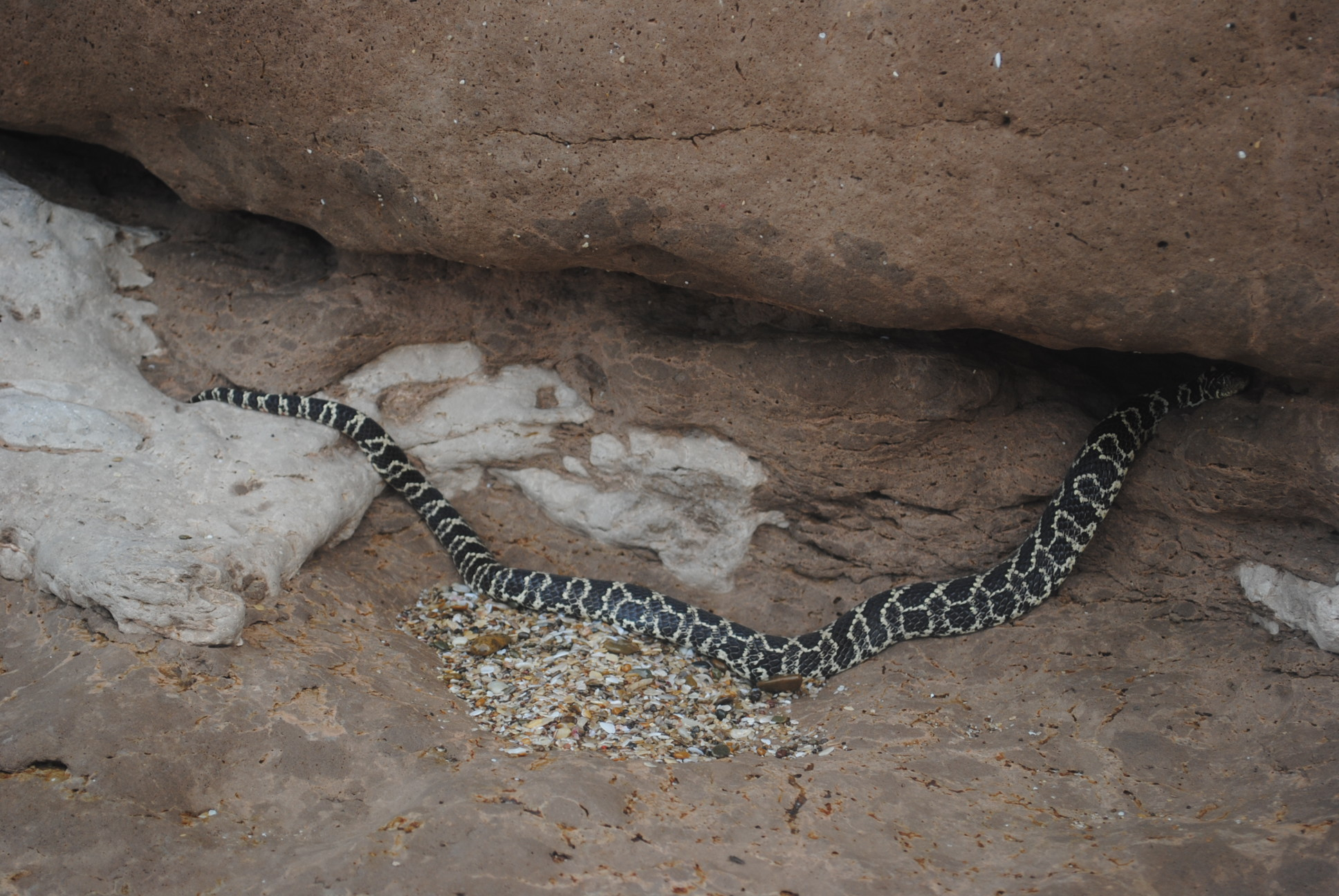 Black and green snake Erythrolamprus poecilogyrus